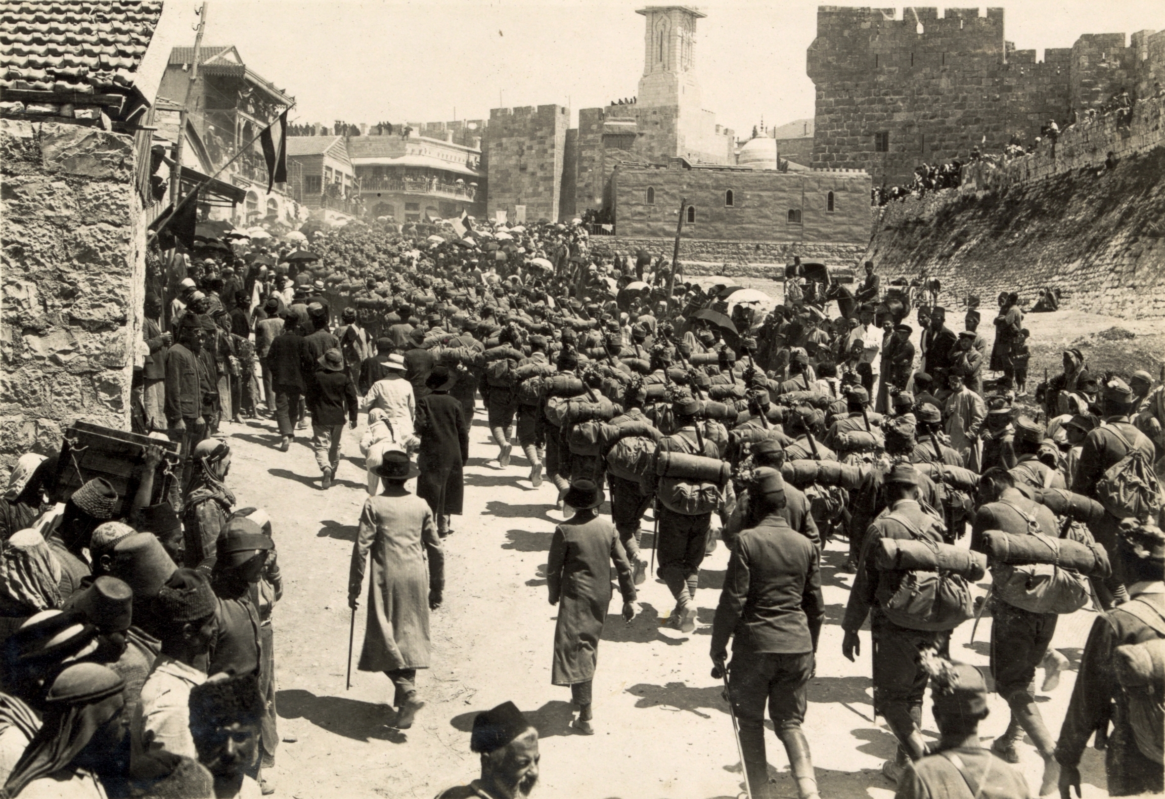 Austrian troops marching up to Jerusalem Jaffa gate 1916. The tower is the lower part of the Jaffa gate clock tower. LC-DIG-ppmsca-13709-00084 (digital file from original on page 23, no.83).